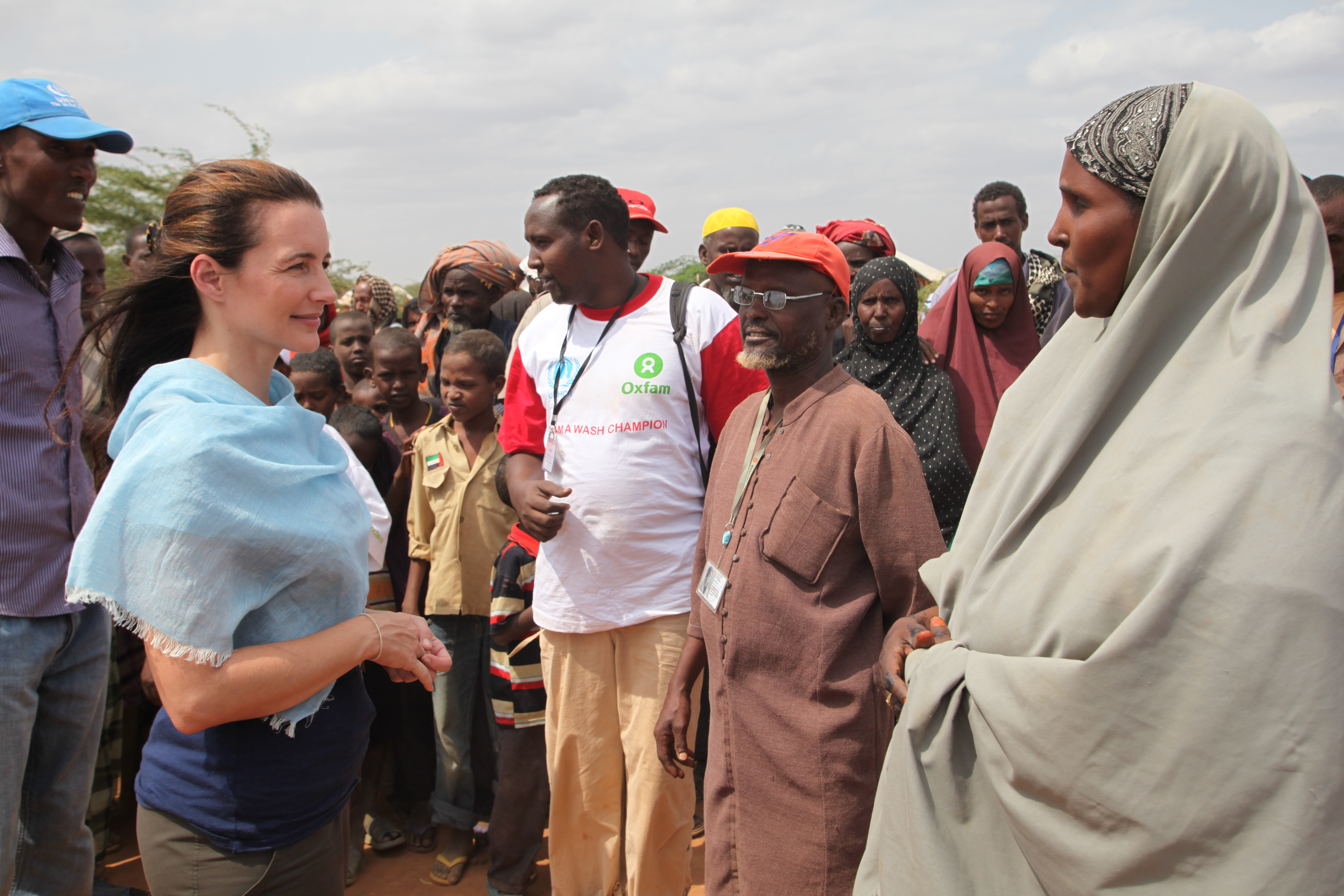 Oxfam ambassador Kristin Davis meets women refugees in Dadaab: “There is very poor hygiene. 40 families are using one toilet, and there is no water. Children are dying because of this. Hyenas in the bush come and attack at night when we sleep. We need shelter, food and water. We ran from Somalia because of war and drought, and we are very tired. My elderly mother died on the way. Now we are living under trees with no clothes.”